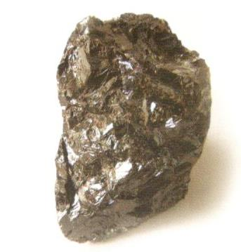 Sphalerite/Wurtzite mineral ore from Toranica deposit in Macedonia